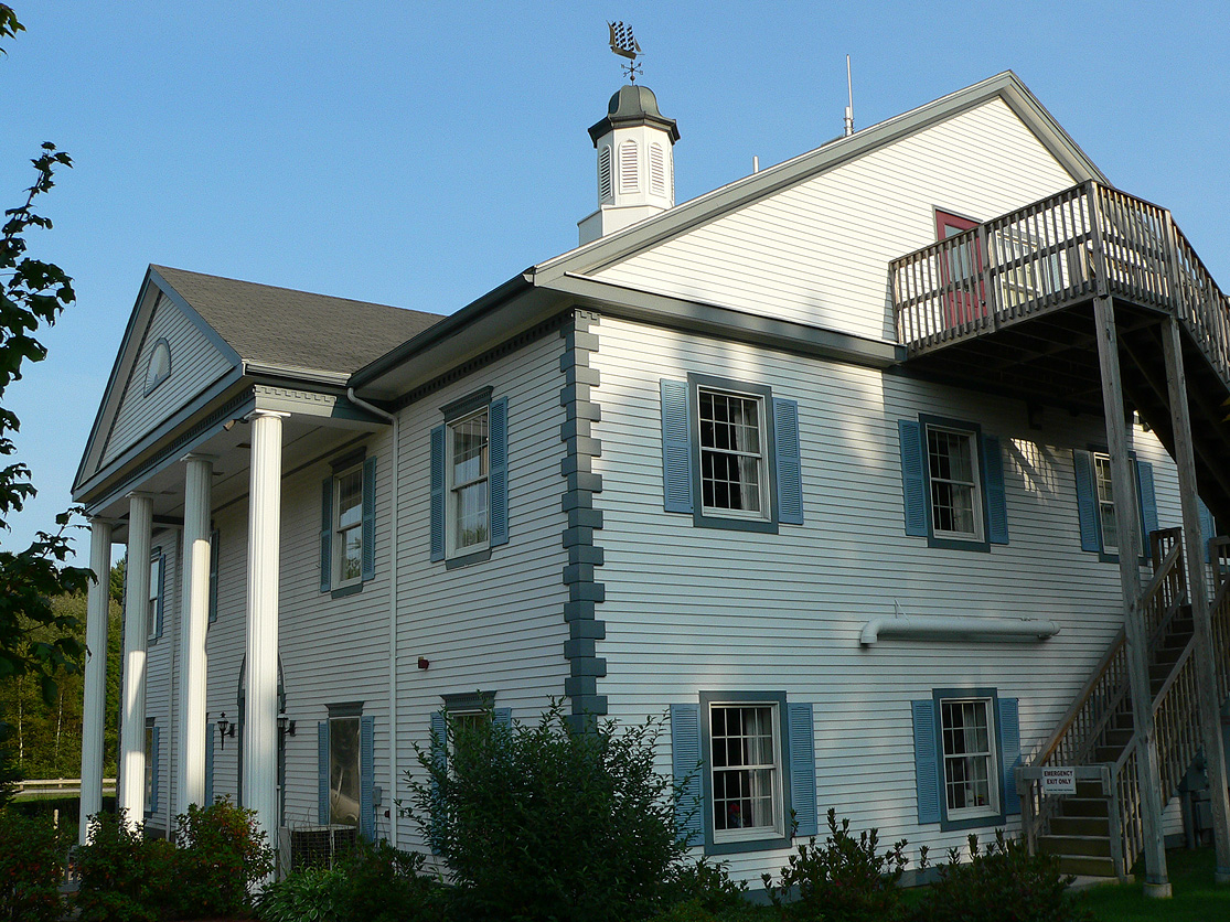 The Wells municipal office building